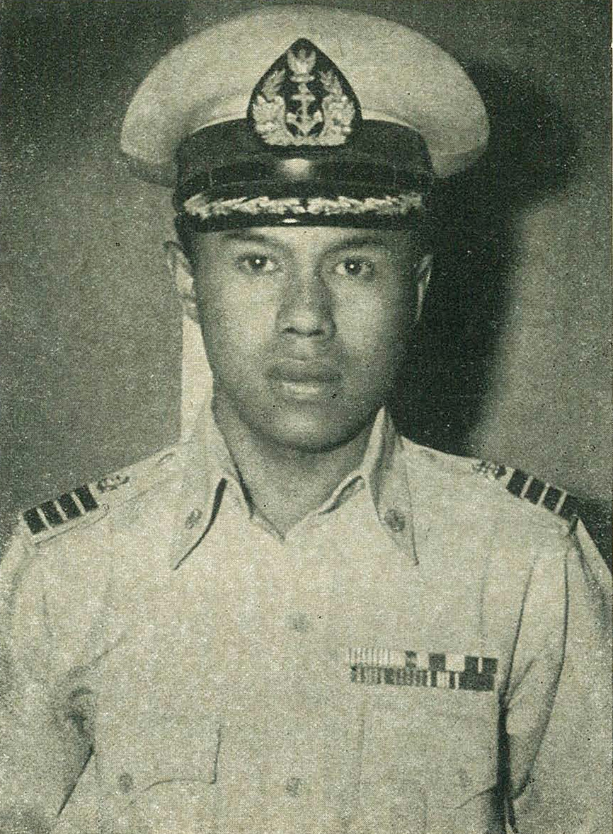 Deputy chief of the Indonesian Navy Josaphat Soedarso (Yos Sudarso)